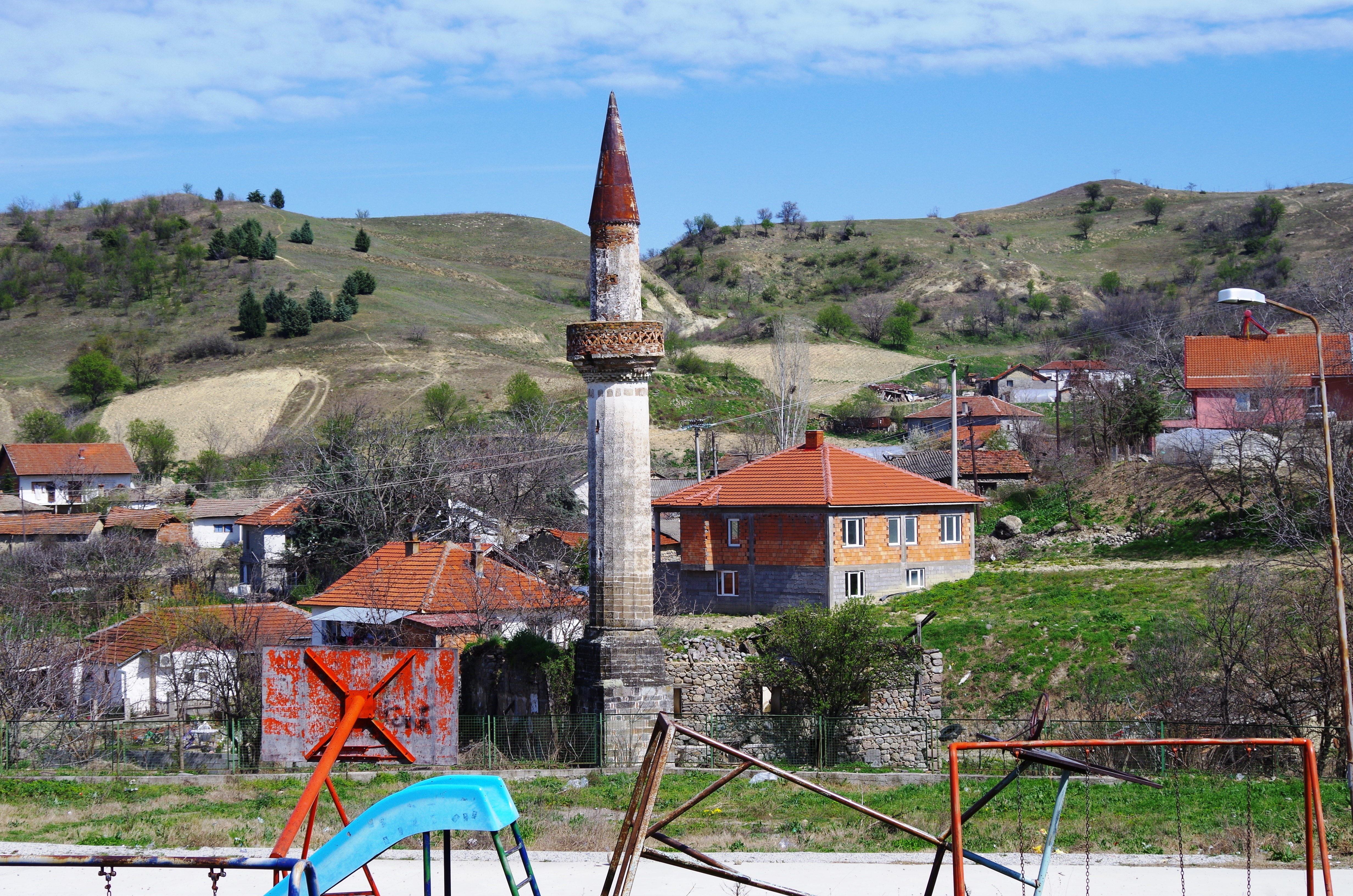 Former mosque in Dolni Disan